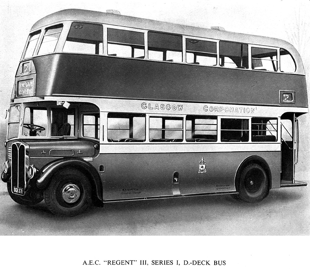 AEC Regent III series 1 doubledecker